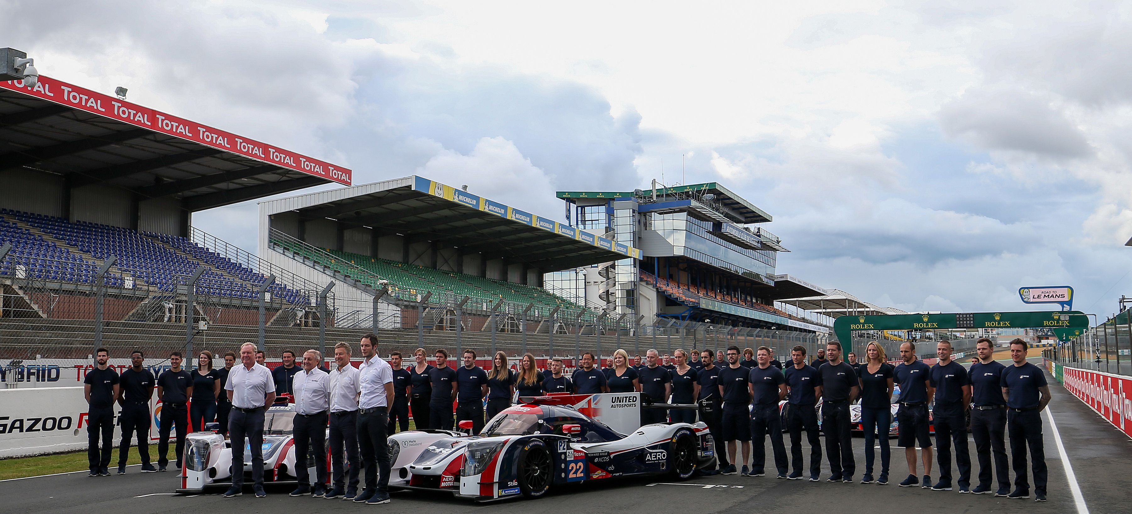 United Autosports photoshoot during 2019 24 Hours of Le Mans